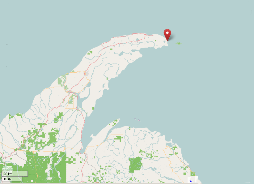 Open Street Map showing the location of the Keweenaw Rocket Range (red marker) at the tip of the Keweenaw Peninsula in Michigan. This map may be incomplete, and may contain errors. Don't rely solely on it for navigation.